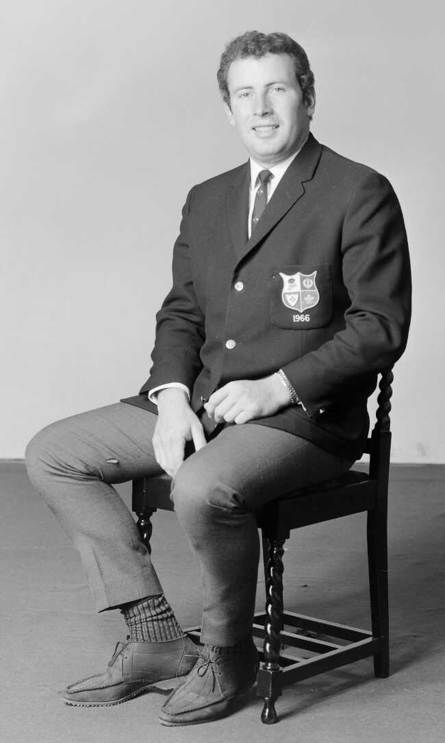 Mr T G Price, member, 1966 British Lions rugby team